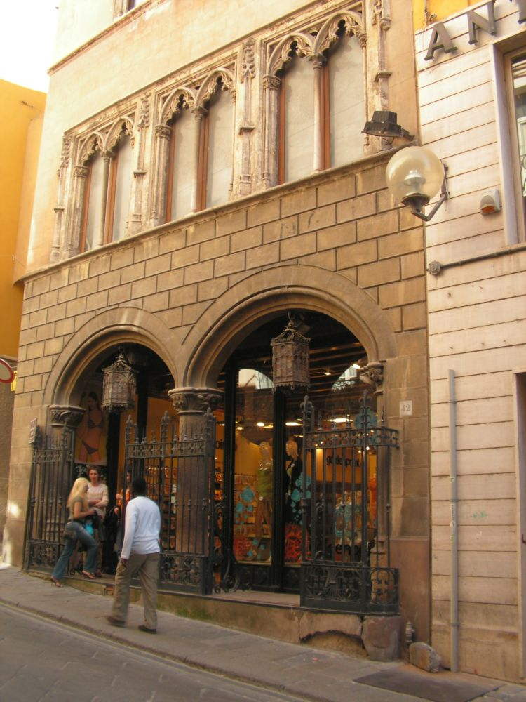 The so called House of King Enzio of Sardinia, XV century, in Sassari, catalan gothic style